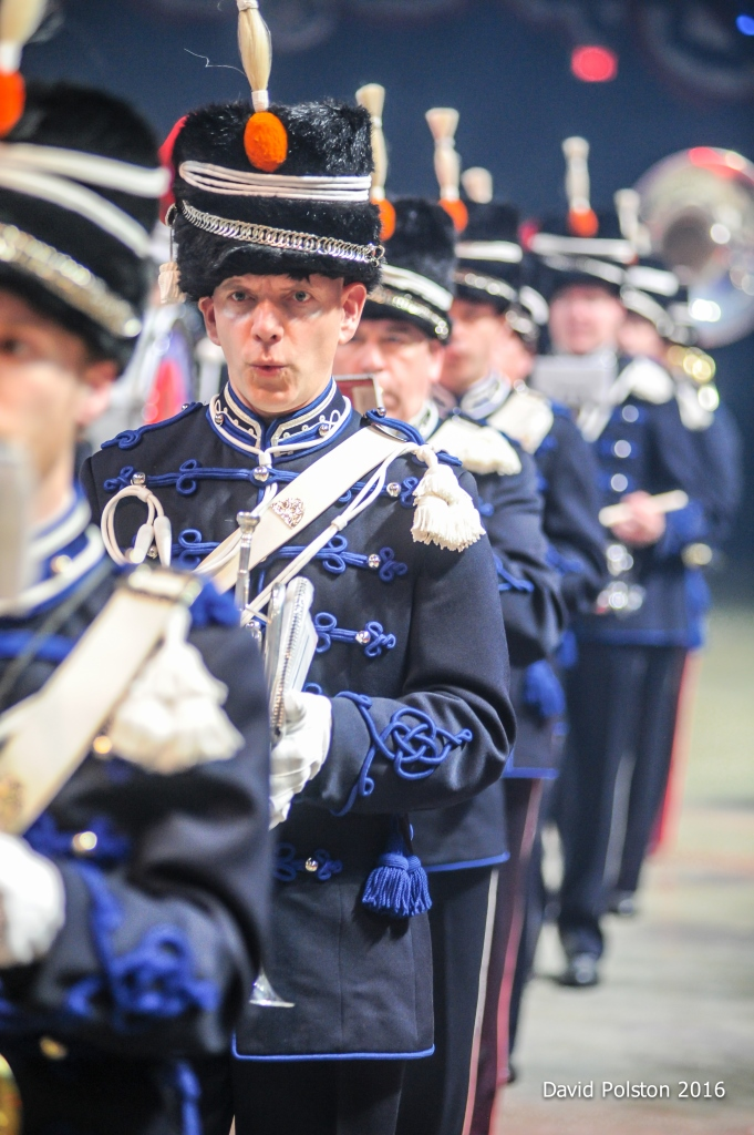 Tattoo